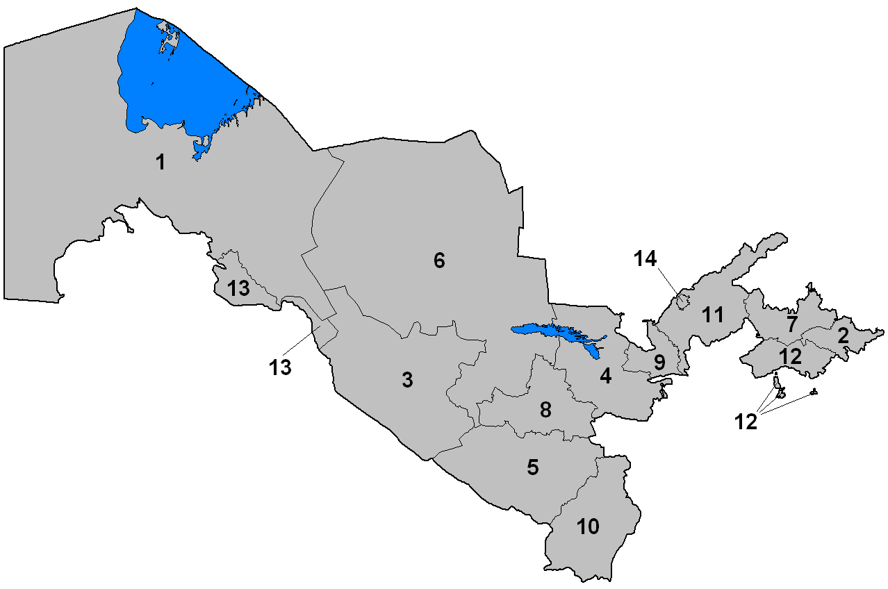 Map of the provinces of Uzbekistan.